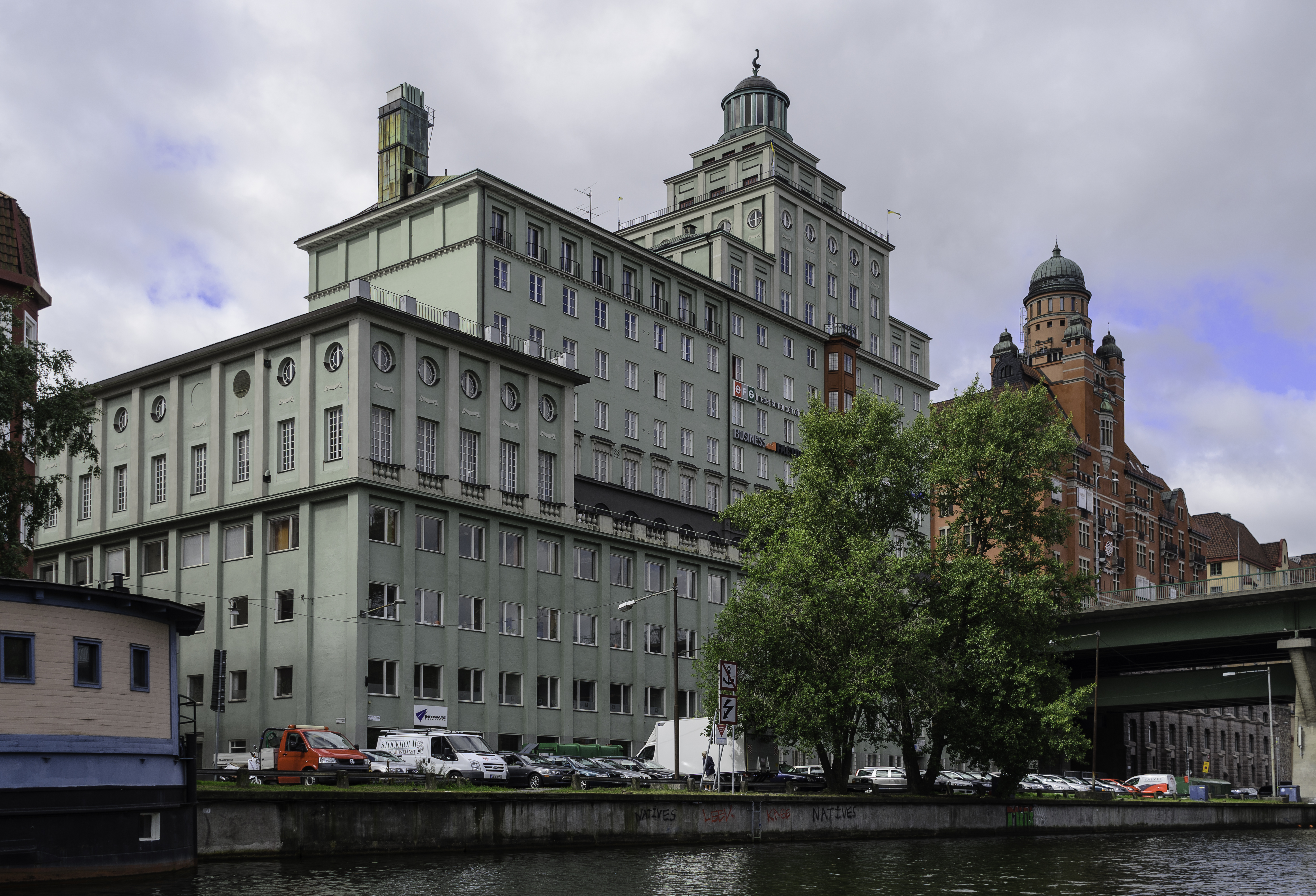 Office building "Sportpalatset" in Kungsholmen, Stockholm.